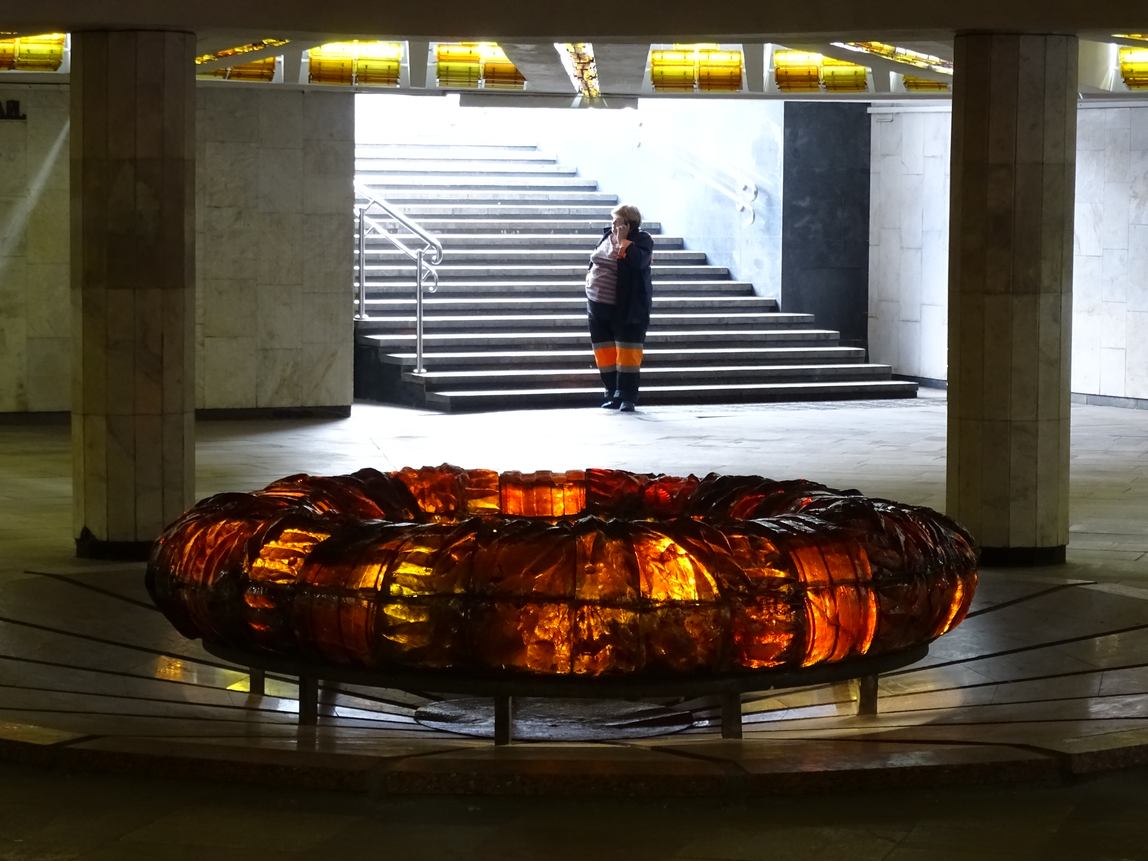 War Memorial underneath Victory Square - Minsk - Belarus